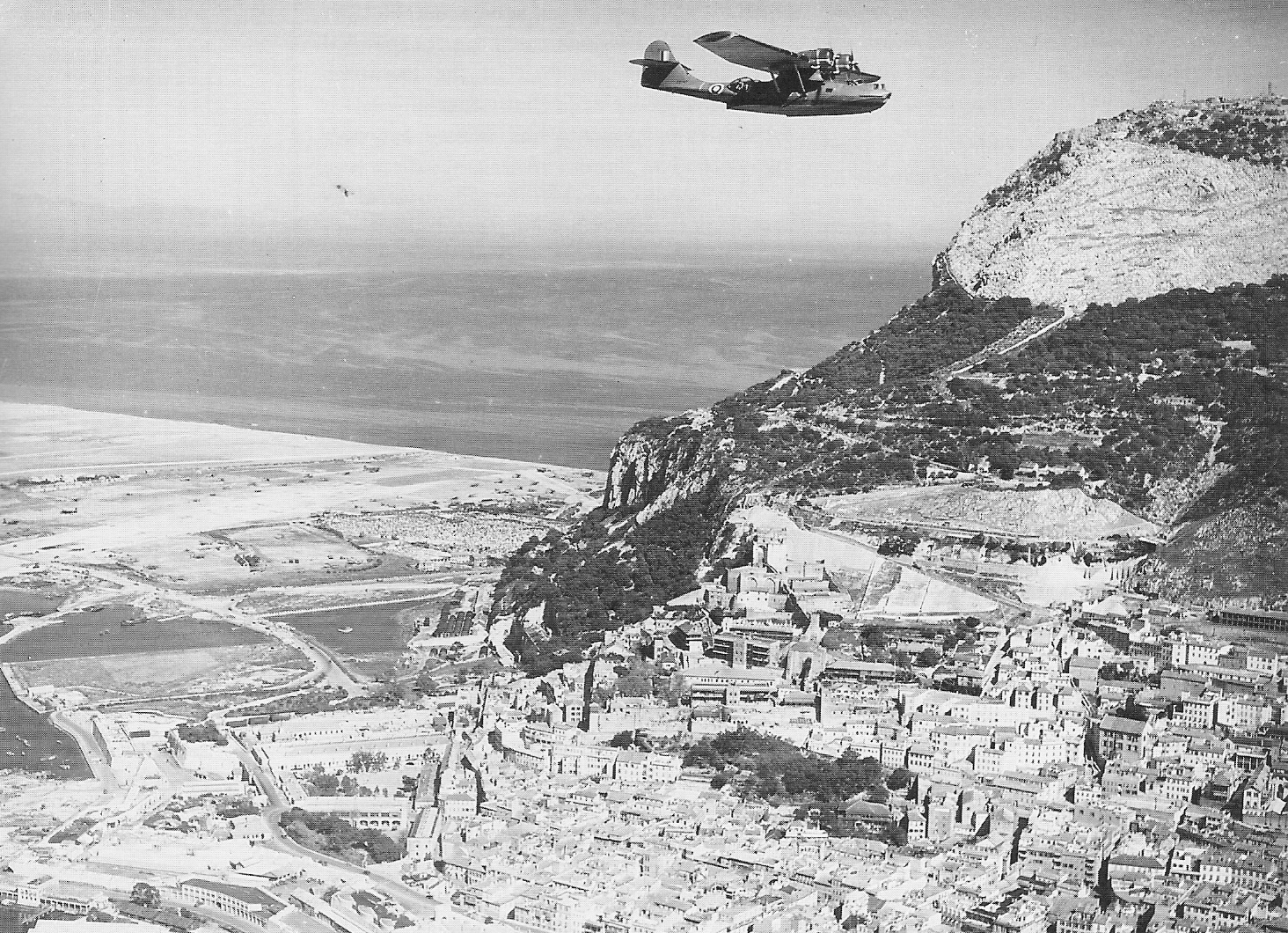 A Catalina flies by the North Front of the Rock as it leaves Gibraltar on a patrol (March 1942)